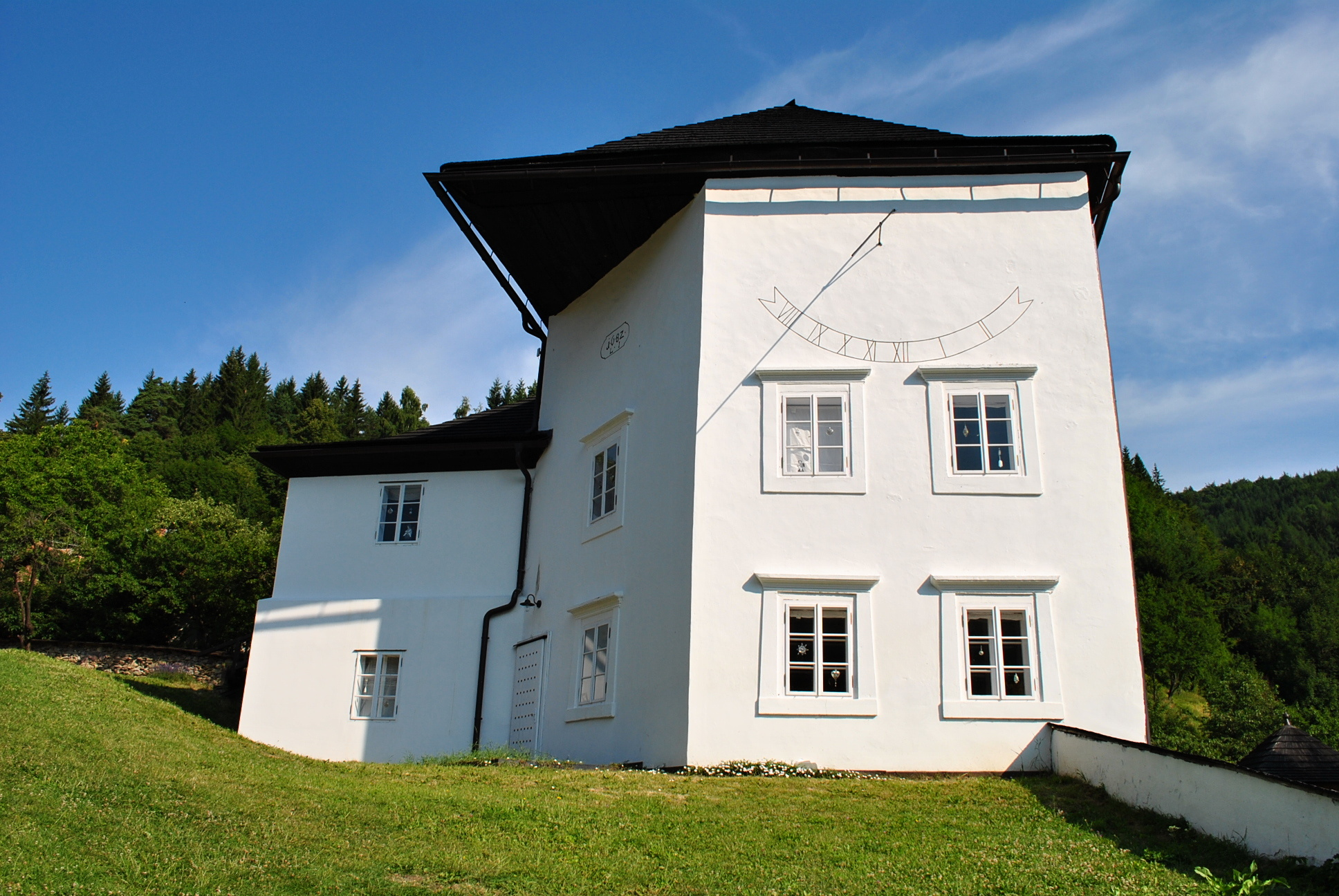 Špania Dolina in Slovakia - so-called Turkish Bastion built in the middle of the 17th Century